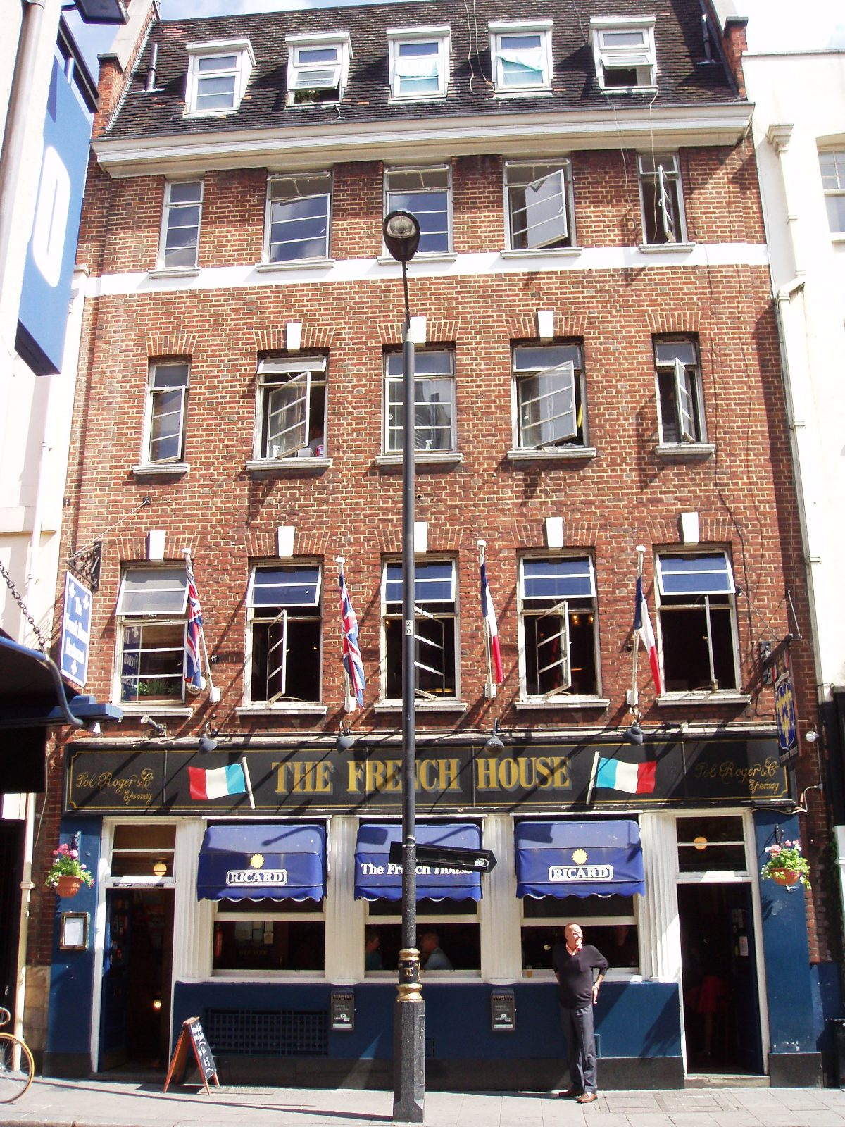 Famous and long-standing pub just off Old Compton St. Address: 49 Dean Street. Former Name(s): The York Minster. Owner: (website); Watney Combe Reid (former). Links: London Pubology